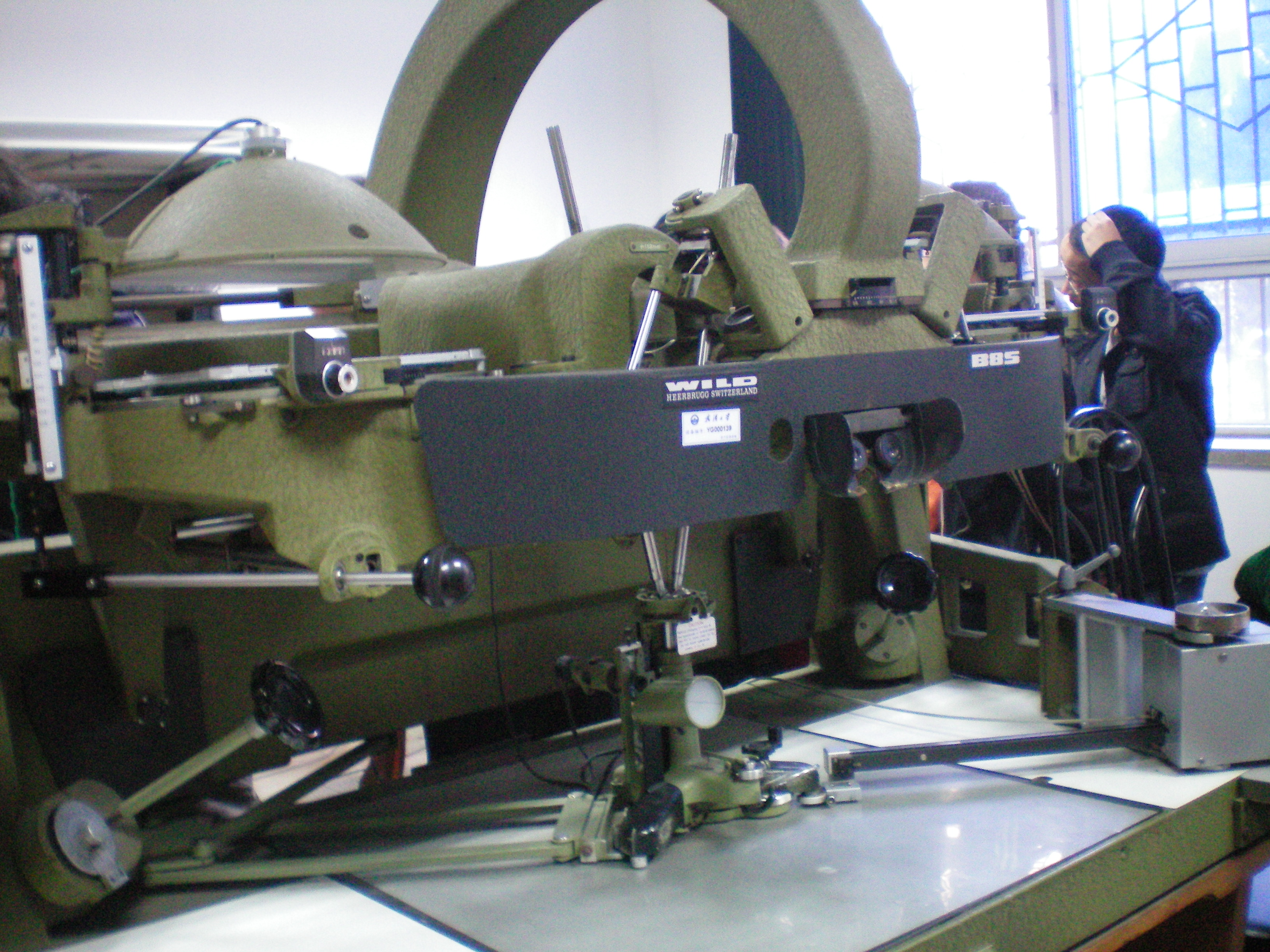 B8S Stereoplotter，Wuhan Unversity，China